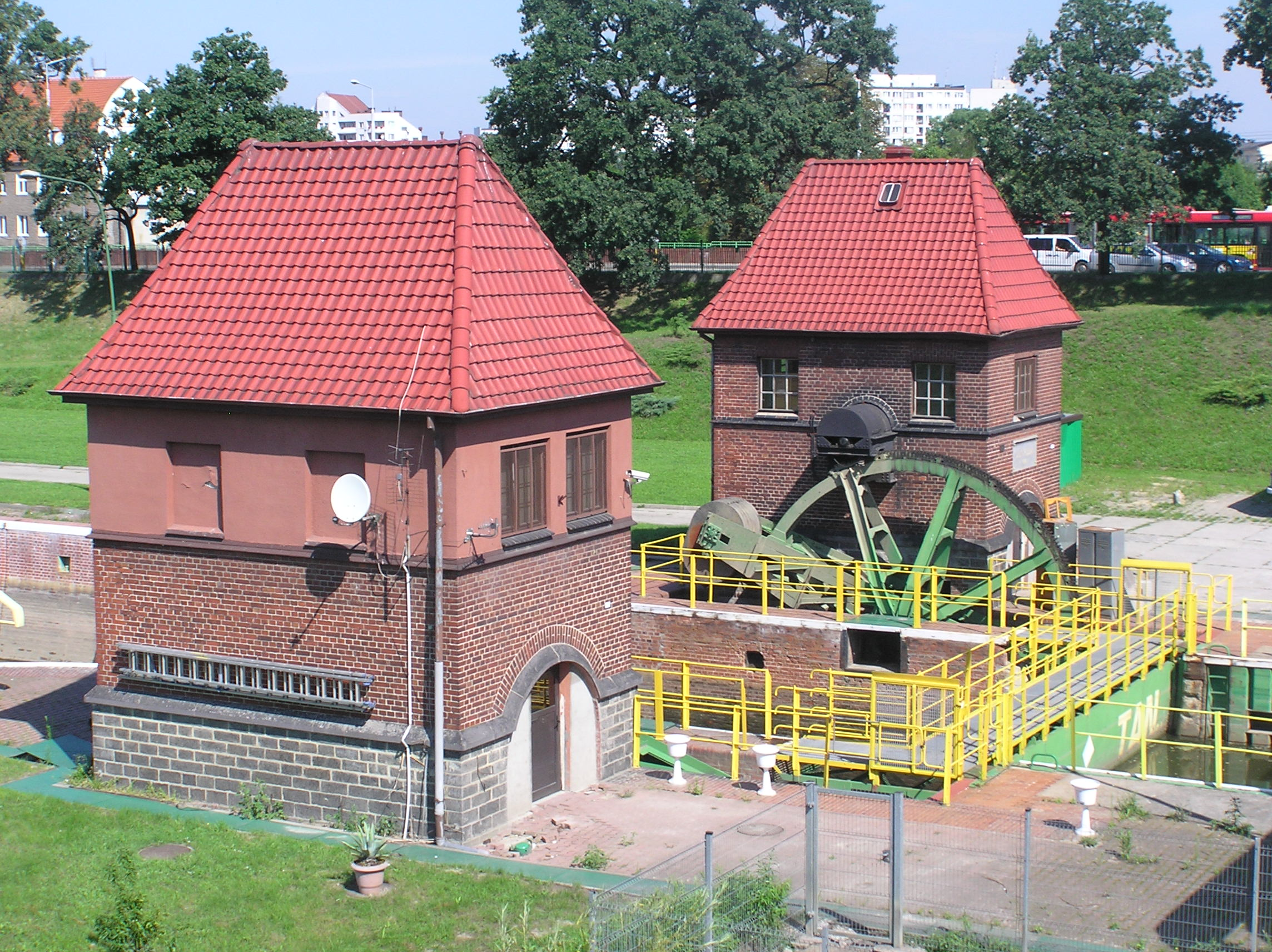 Wrocław, Oder River, Różanka Canal, Różanka Lock